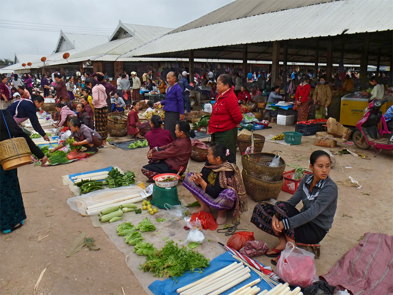 The morning market in Muang Sing, Luang Namtha Province, Laos. The biggest opium market in the Golden Triangle during the French colonial era.